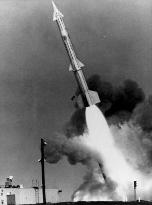 LIM-49 Spartan, a United States Army anti-ballistic missile